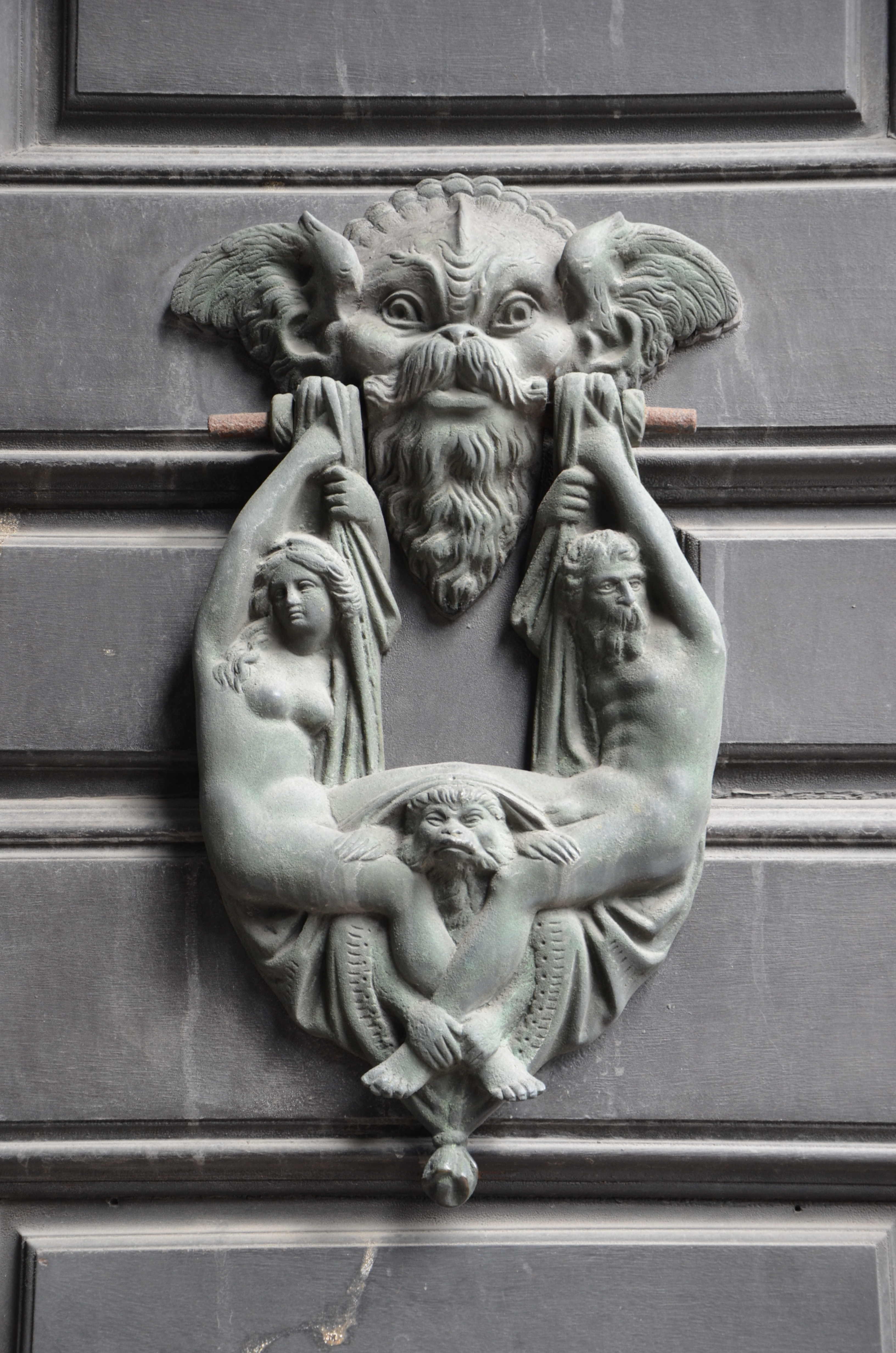 Door knocker, entrance to Hallwylska museet, 1895, Stockholm